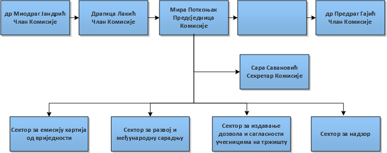 Diagram of state organisation of RS